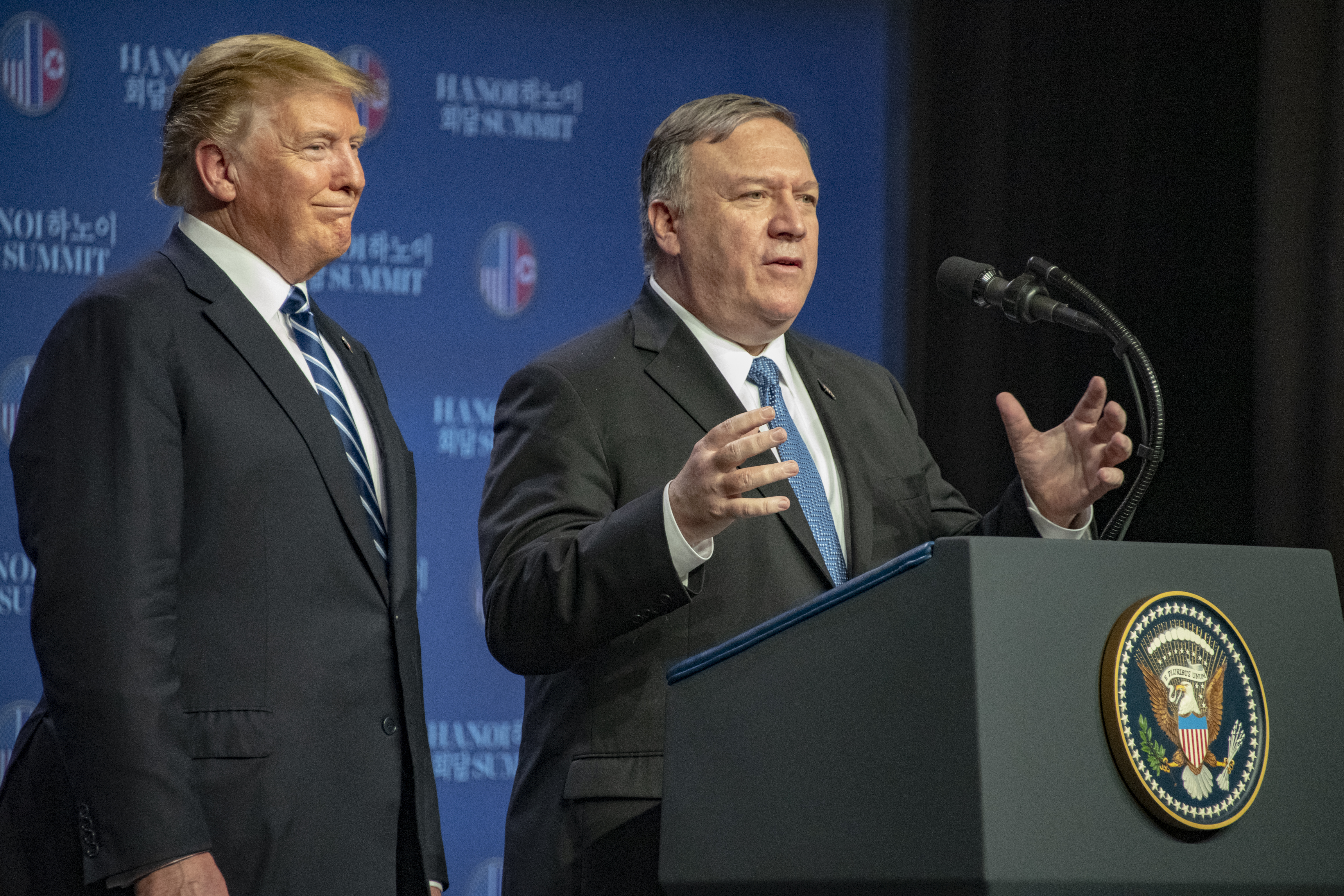 President Donald J. Trump and Secretary of State Michael R. Pompeo participate in a press conference in Hanoi, Vietnam, on February 28, 2019. [State Department photo by Ron Przysucha/ Public Domain]